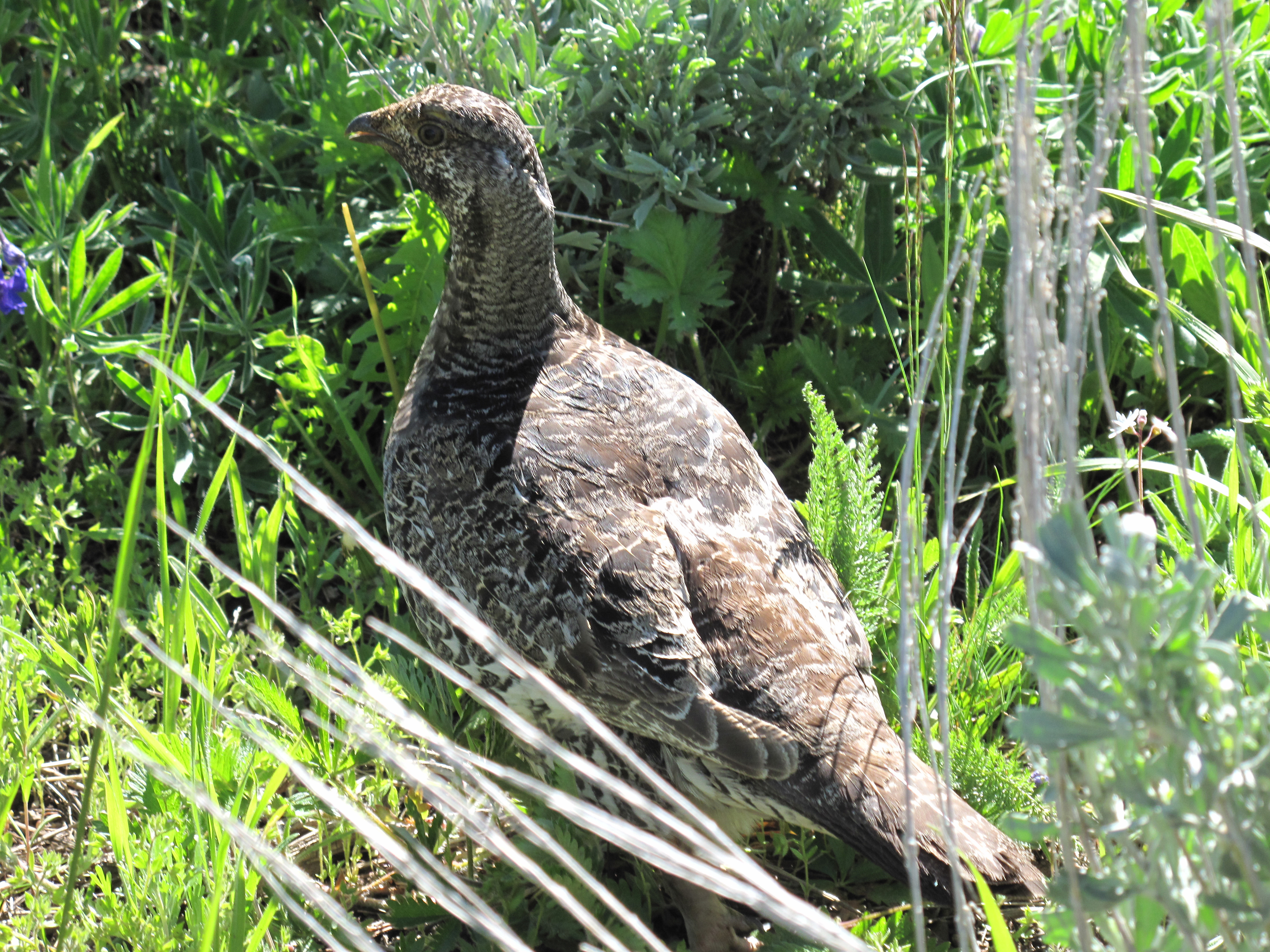 Female Sage Grouse in the Bighorn National Forest, Wyoming. She had eight or nine chicks scattered in the sagebrush around her.